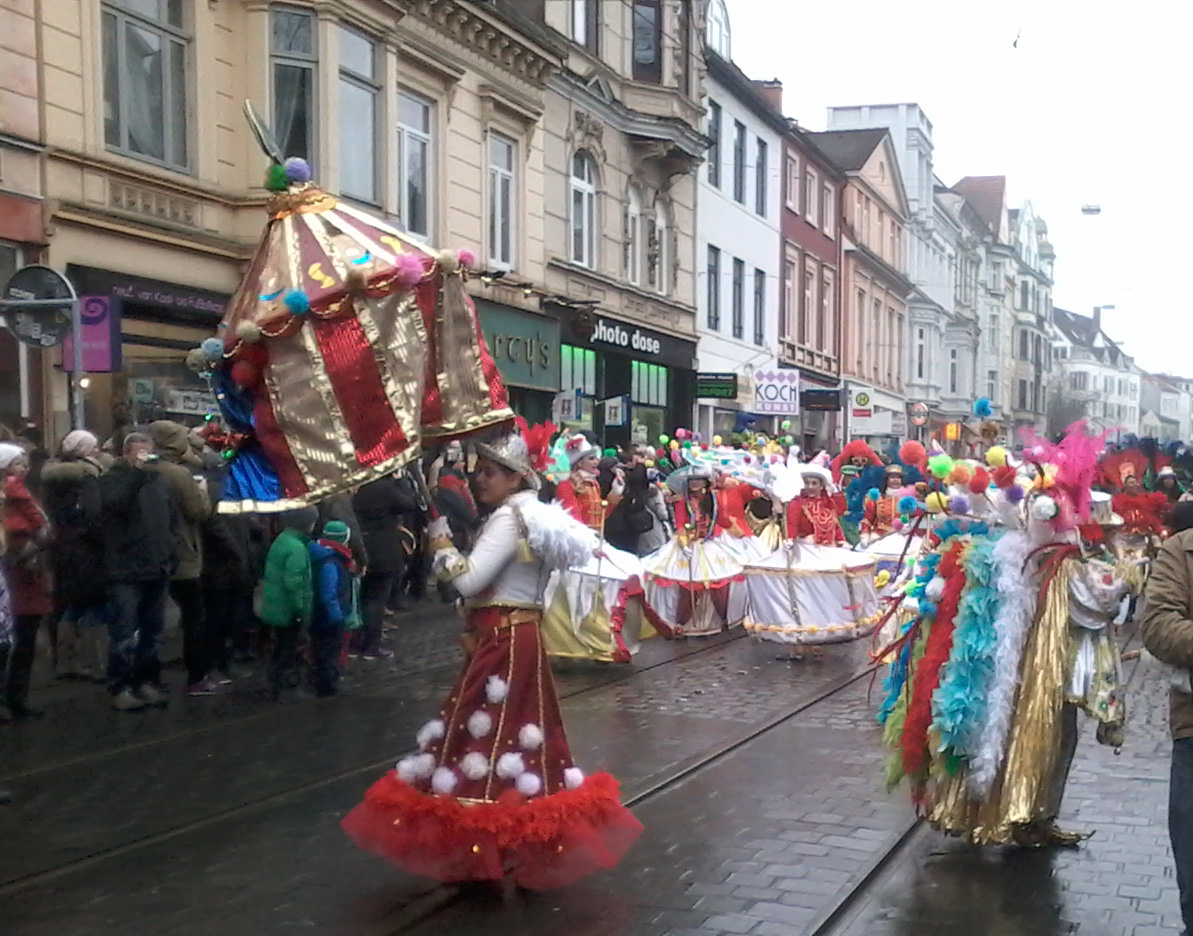 Part of the orginal picture